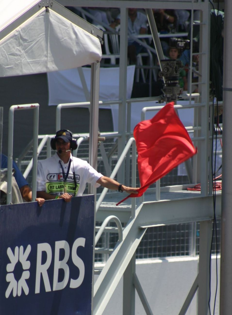 Cropped version of Image:Red Flag.jpg